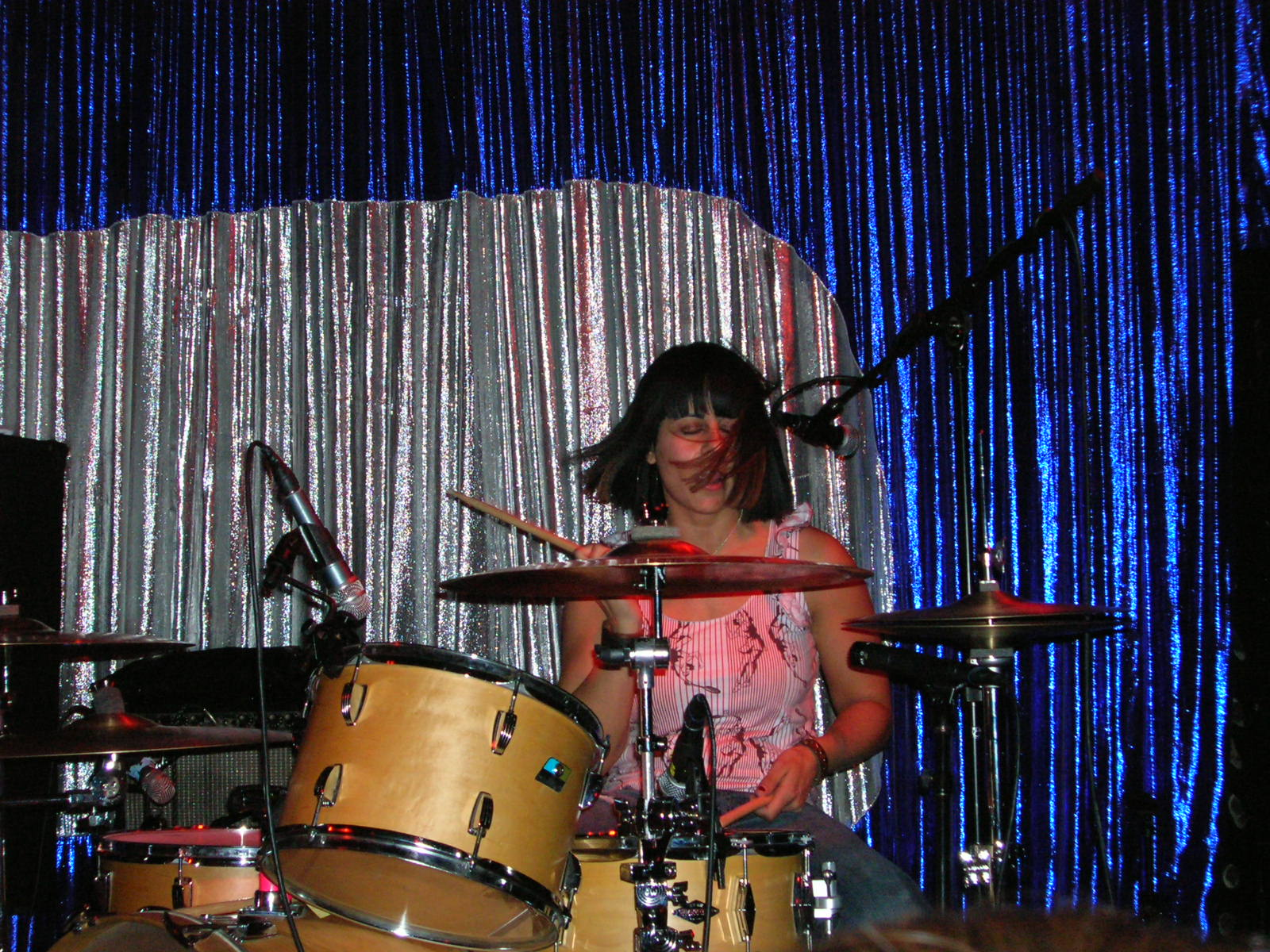 Taken by Teresina Hone, 2006